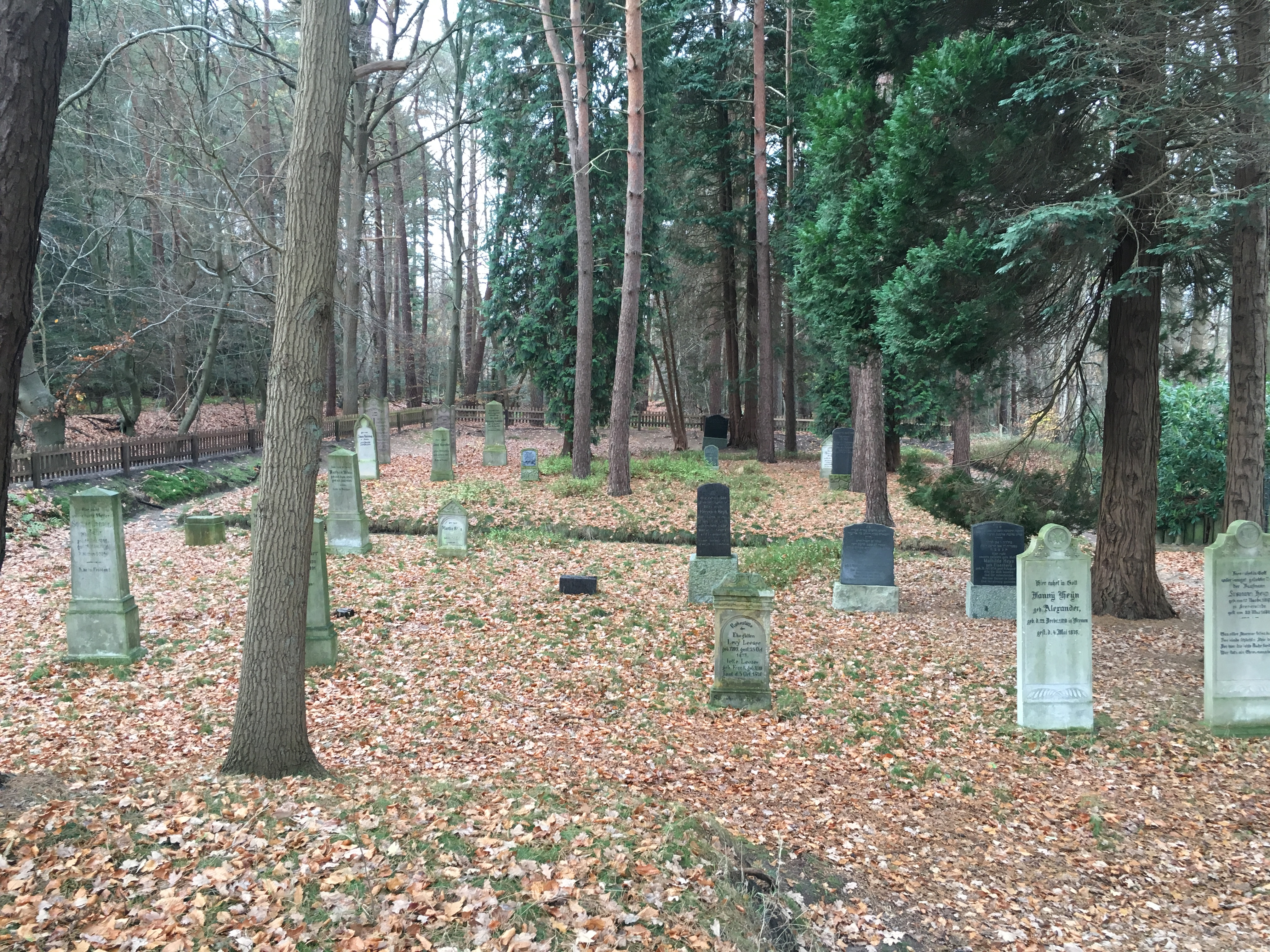 Gravestones on the Jewish cemetery in Bremervörde (Germany)